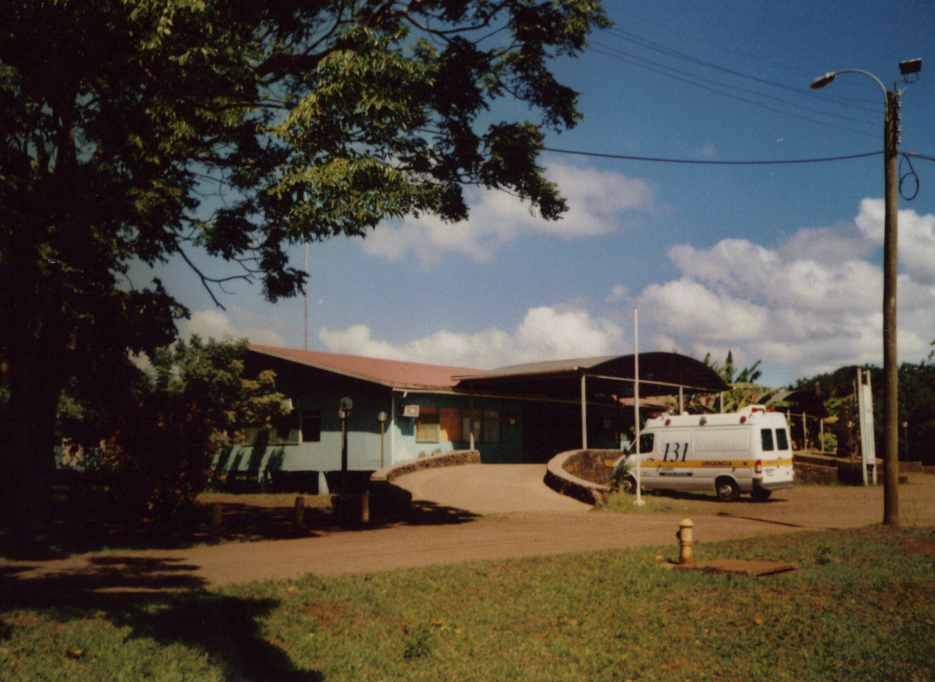 Hangaroa, hospital